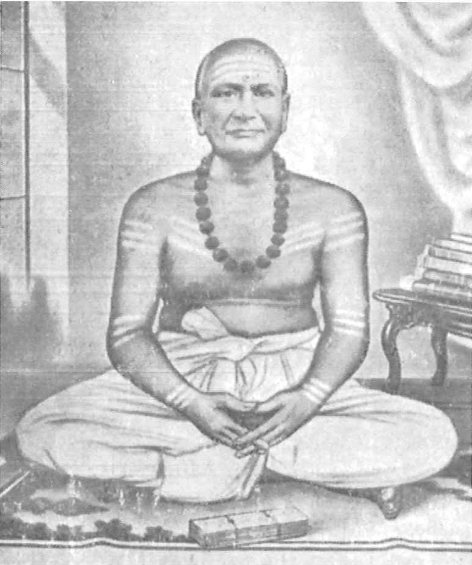 Meenakshi Sundaram Pillai (1815–1876), late 19th century portrait